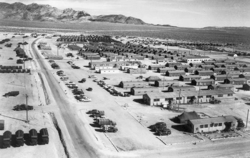 Nevada Test Site. Camp Desert Rock, looking north. The 100 semi-permanent buildings and more than 500 tents accommodated 6,000 troops.